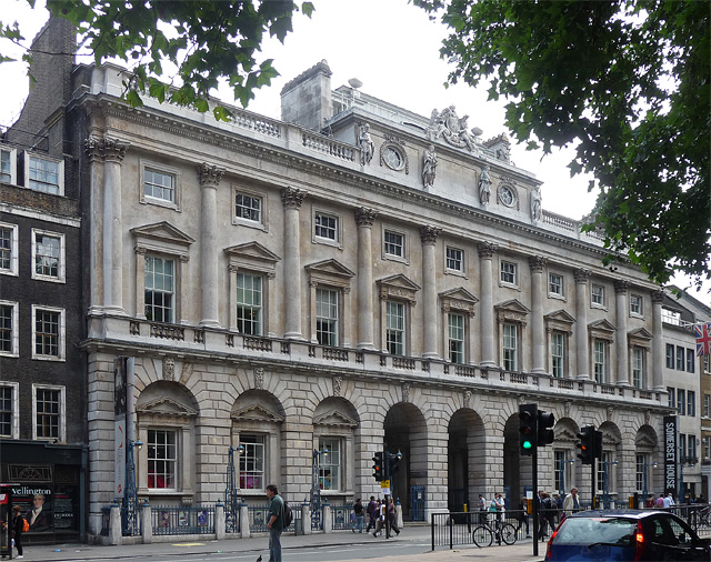 A particularly noble and dignified facade, as befitting the academic style of its architect, Sir William Chambers, then "Comptroller of the Office of Works". Somerset House was the civil service's first office block. Built 1776-80. Ground floor of windows set into a rusticated arcade, the three central arches providing access to the courtyard and buildings behind. Then a straight sequence of windows between attached Corinthian columns. The central three bays are crowned by an attic with carved figures, oval windows and swags. All very Roman. Grade I listed. It is now largely an arts and cultural centre. In winter, the courtyard, formerly the taxmen's car park, is turned into a popular ice rink.